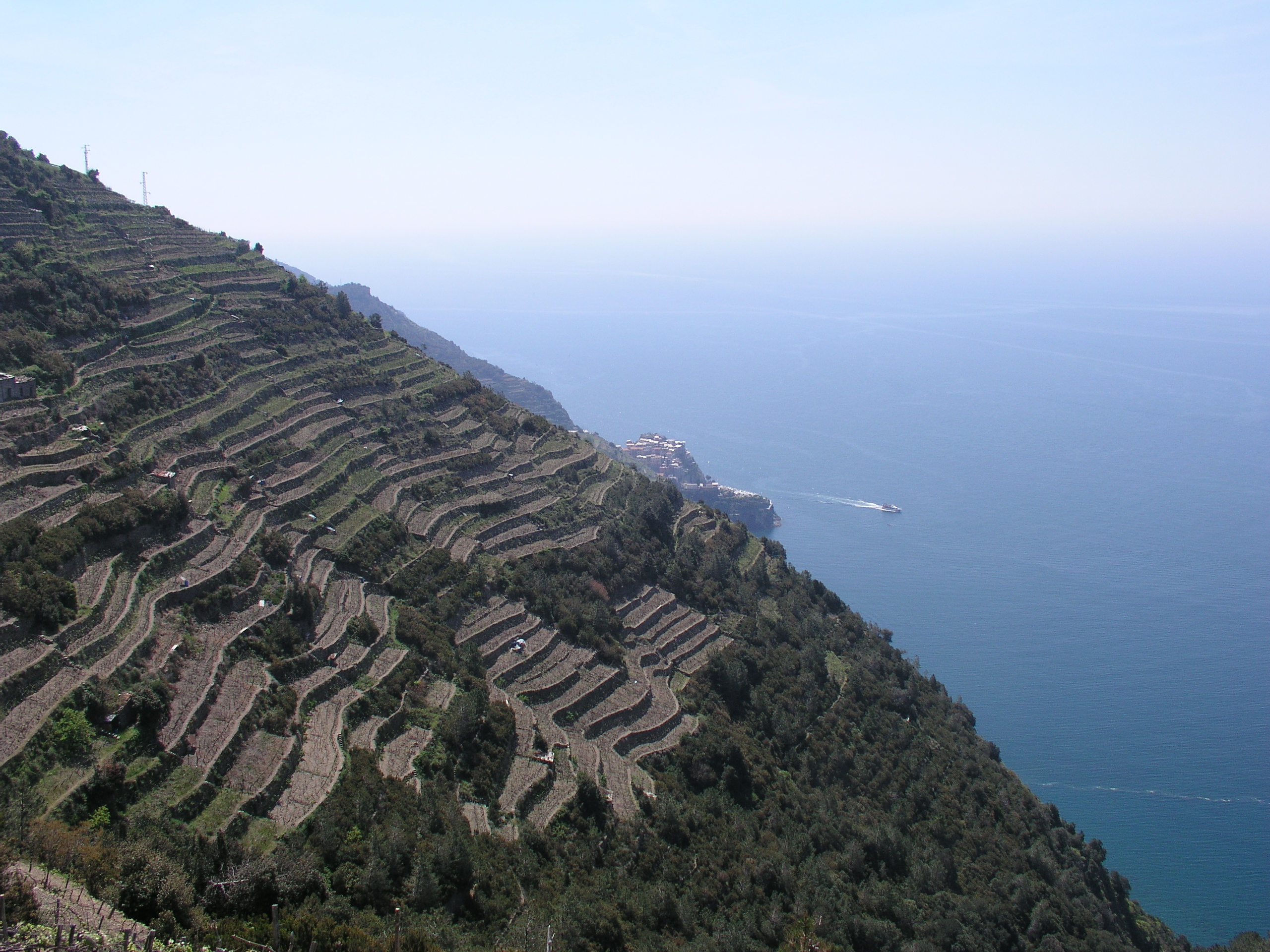 Vineyards near Volastra, Italy. Taken April 2005 by the author Fred L Appleton, while vacationing in Cinque Terre.